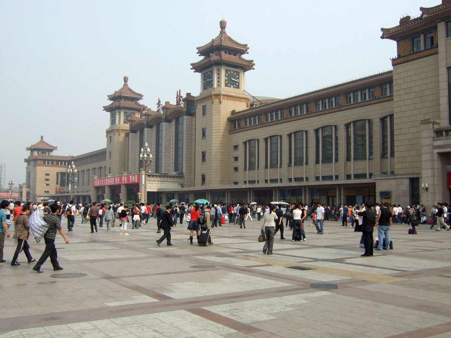 Beijing Railway Station, China